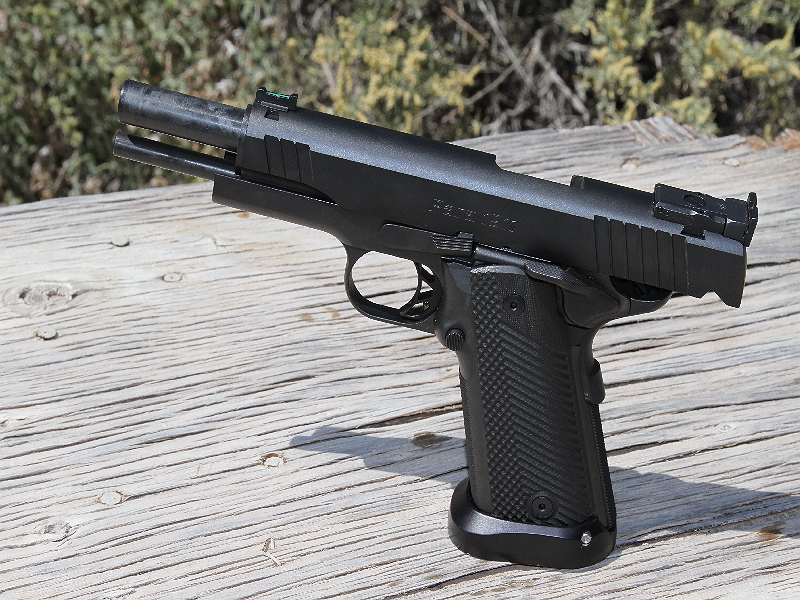 Para Custom 14-45 Competition Pistol